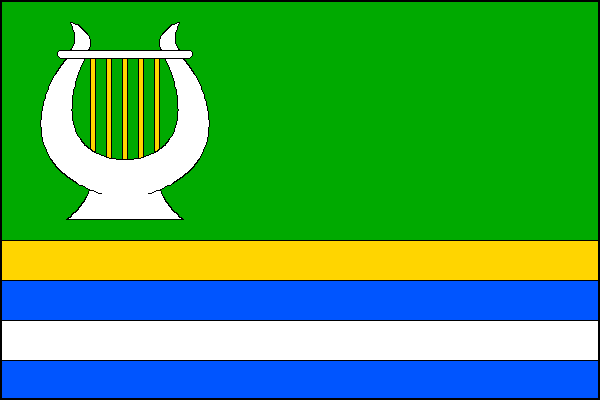 Municipal flag of Kaliště village, Pelhřimov District, Czech Republic.